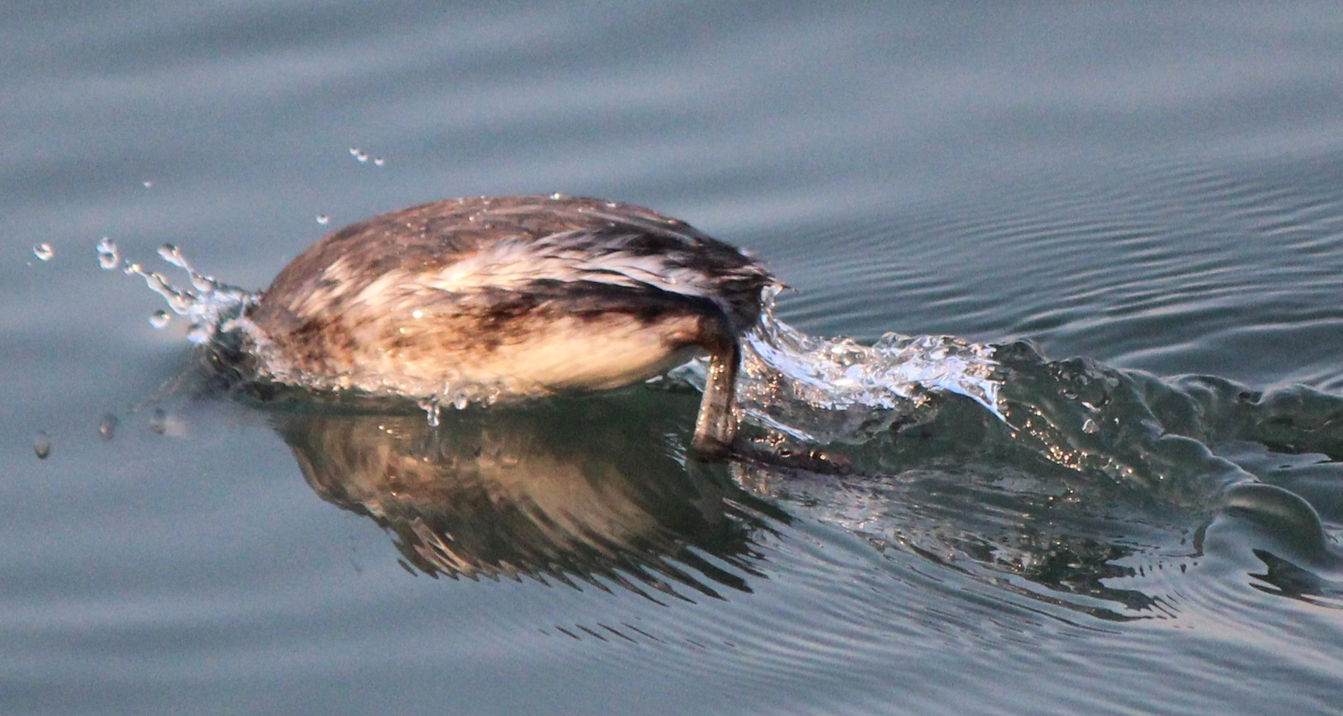 Podiceps nigricollis nigricollis (Black-necked Grebe), winter plumage diving into the sea, in Japan.